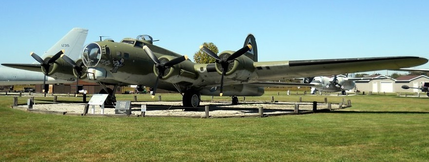 Miss Liberty Belle - Grissom Air Museum, Peru, Indiana